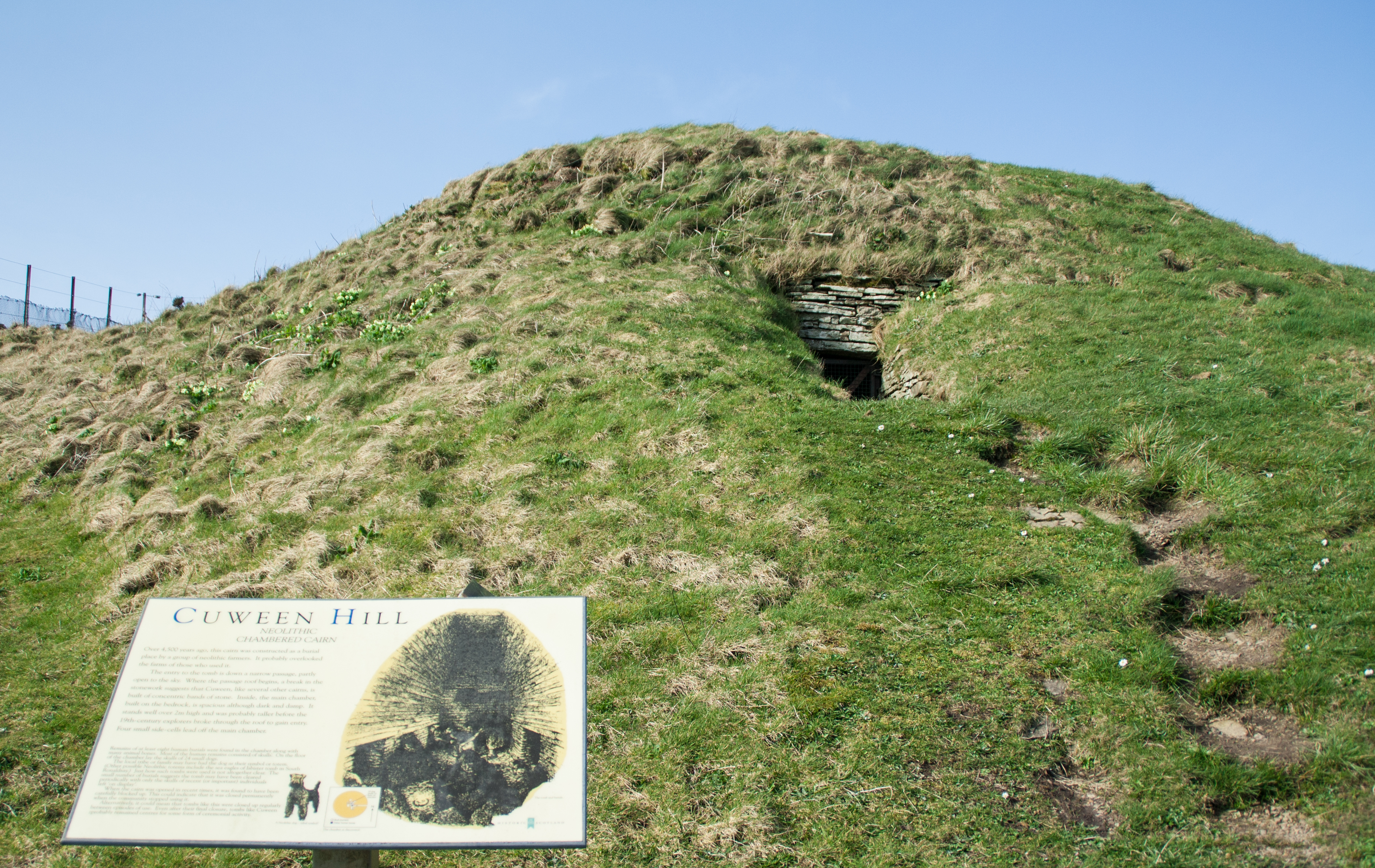 From view of the Cuween Hill Chambered Cairn